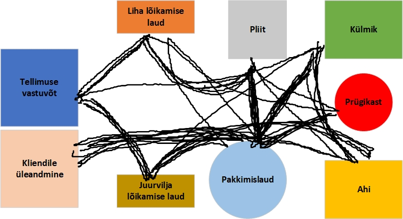 Spaghetti diagram before optimization